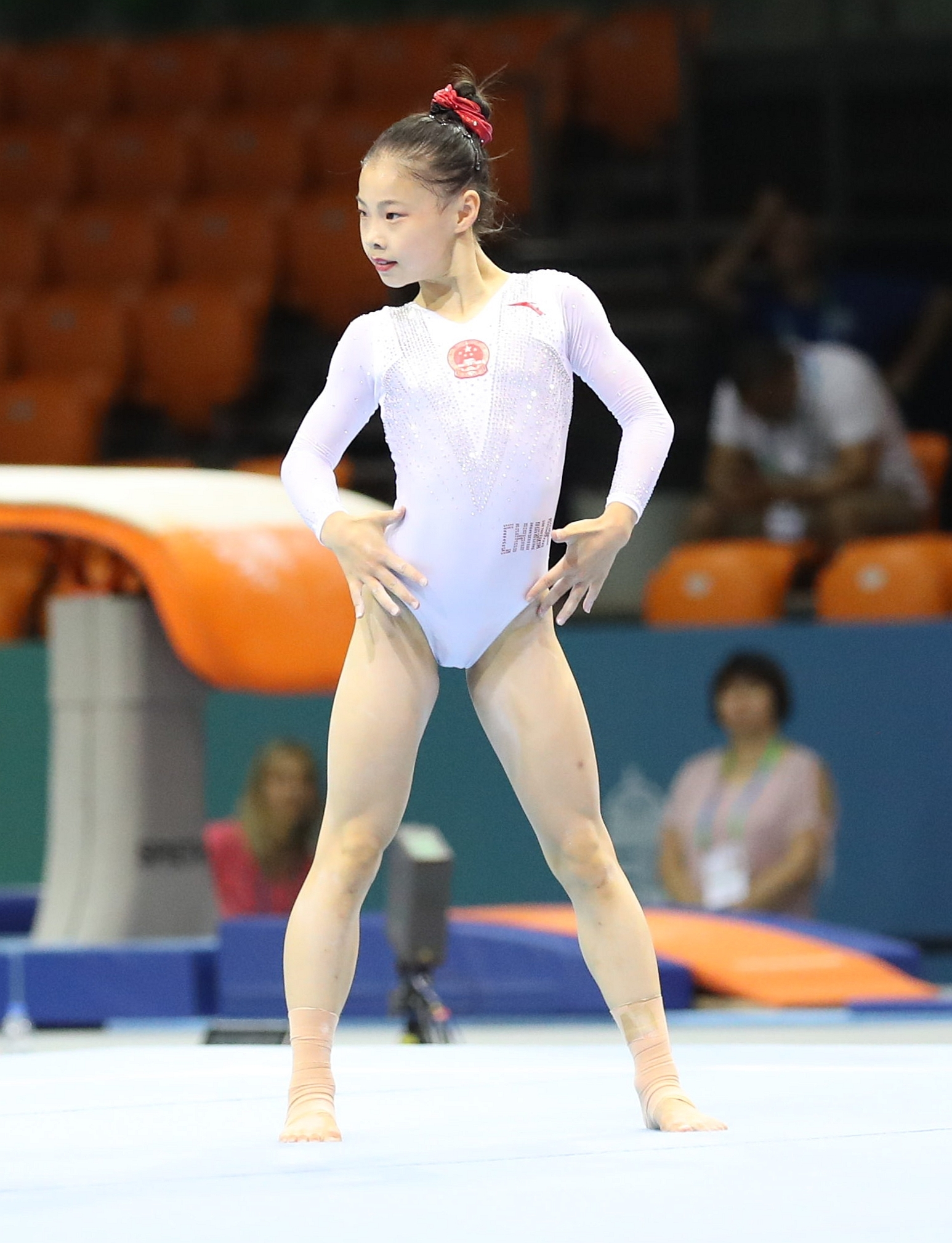 Floor exercise during the girls' podium training at the 1st FIG Artistic Gymnastics Junior World Championships on the 26 June 2019 in Győr, Hungary. Depicted: Chenchen Guan.